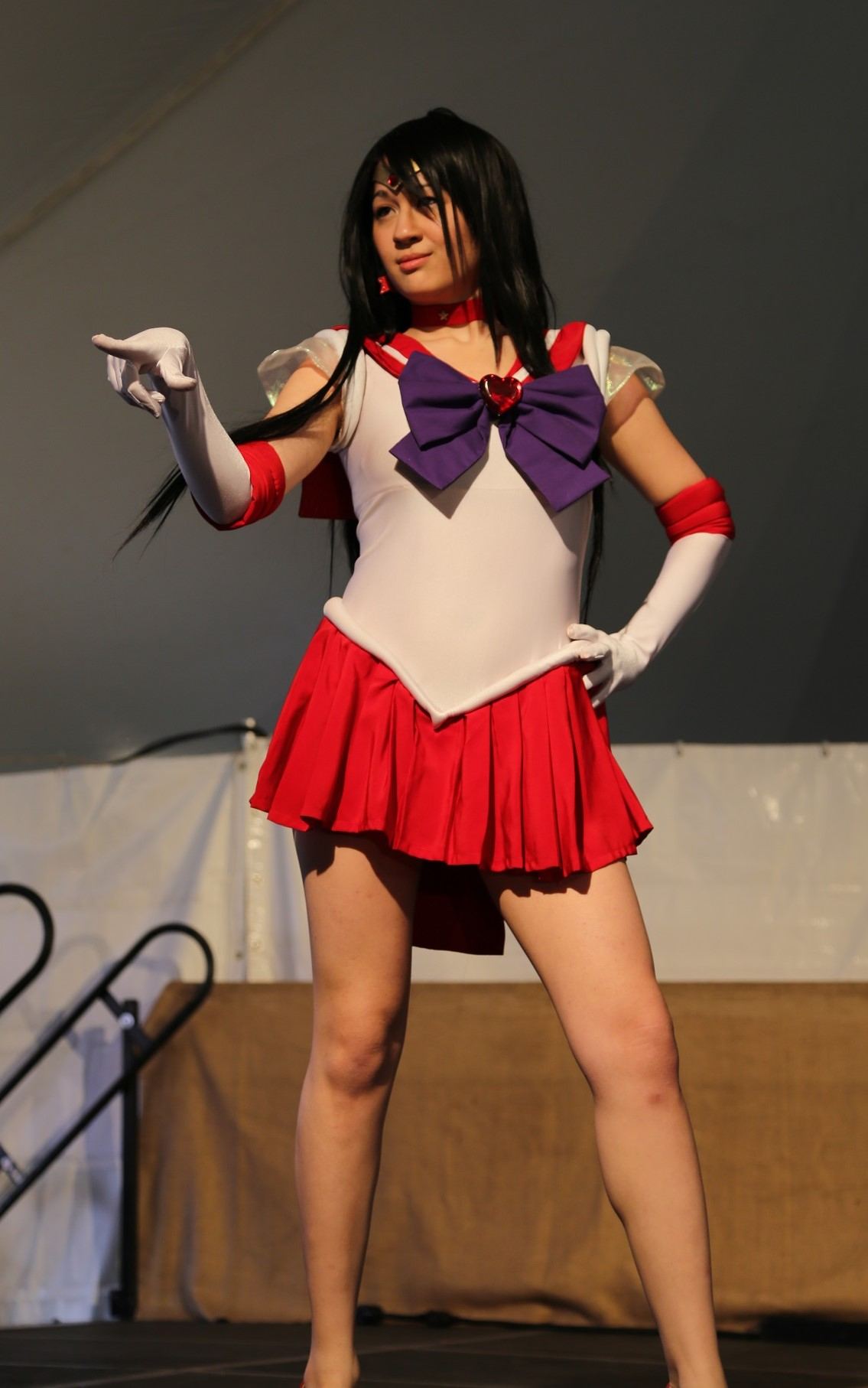 Photograph of a cosplayer dressed as Sailor Mars at the BBG Cosplay Fashion Show 2013.